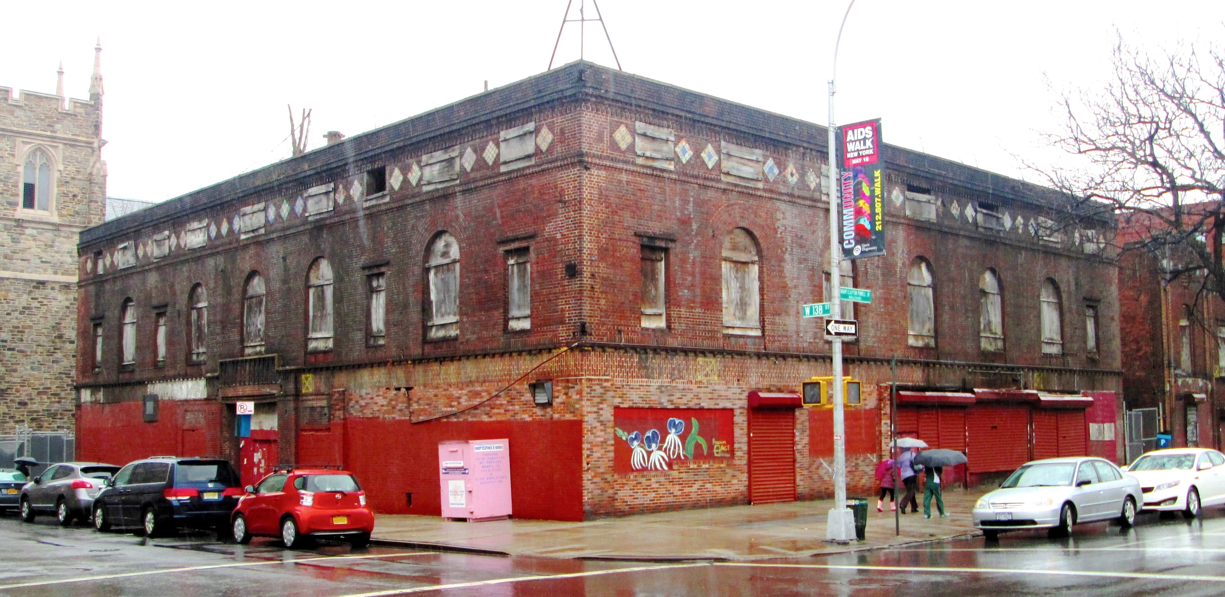 The Renaissance Theater and Renaissance Casino and Ballroom located at 2341-2359 Adam Clayton Powell Jr. Boulevard between West 137th and 138th Streets in the Harlem neighborhood of Manhattan, New York City, were built in 1920-23 were designed by Harry Creighton Ingalls in a style based on North African Islamic architecture. The theater, to the south, which seated 900 people, was built first, opening in 1921, and the casino with second floor ballroom was opened two years later. The theater began showing silent movies and live stage performances, but soon converted to sound films, while the casino was used for meetings and professional basketball games of the all-black Harlem Renaissance Big-Five (the "Harlem Rens"). At the time, the complex was the only upscale facility of its kind in Harlem.The complex closed in 1979 and was purchased by the Abyssinian Development Corporation - an arm of the Abyssinian Baptist Church - for redevelopment as an apartment building which would utilize the facade of the casino. In 2007, the ADC defeated a proposal to landmark the complex, which it claimed would inhibit the redevelopment, and demolition began, but as of 2014 the project remains incomplete, with only the western facade of the theater standing, and the casino's walls apparently unchanged. (Sources: AIA Guide to NYC (5th ed.), NY Times article, Abandoned NYC, and Harlem One-Stop)This image shows the Casino and Ballroom.